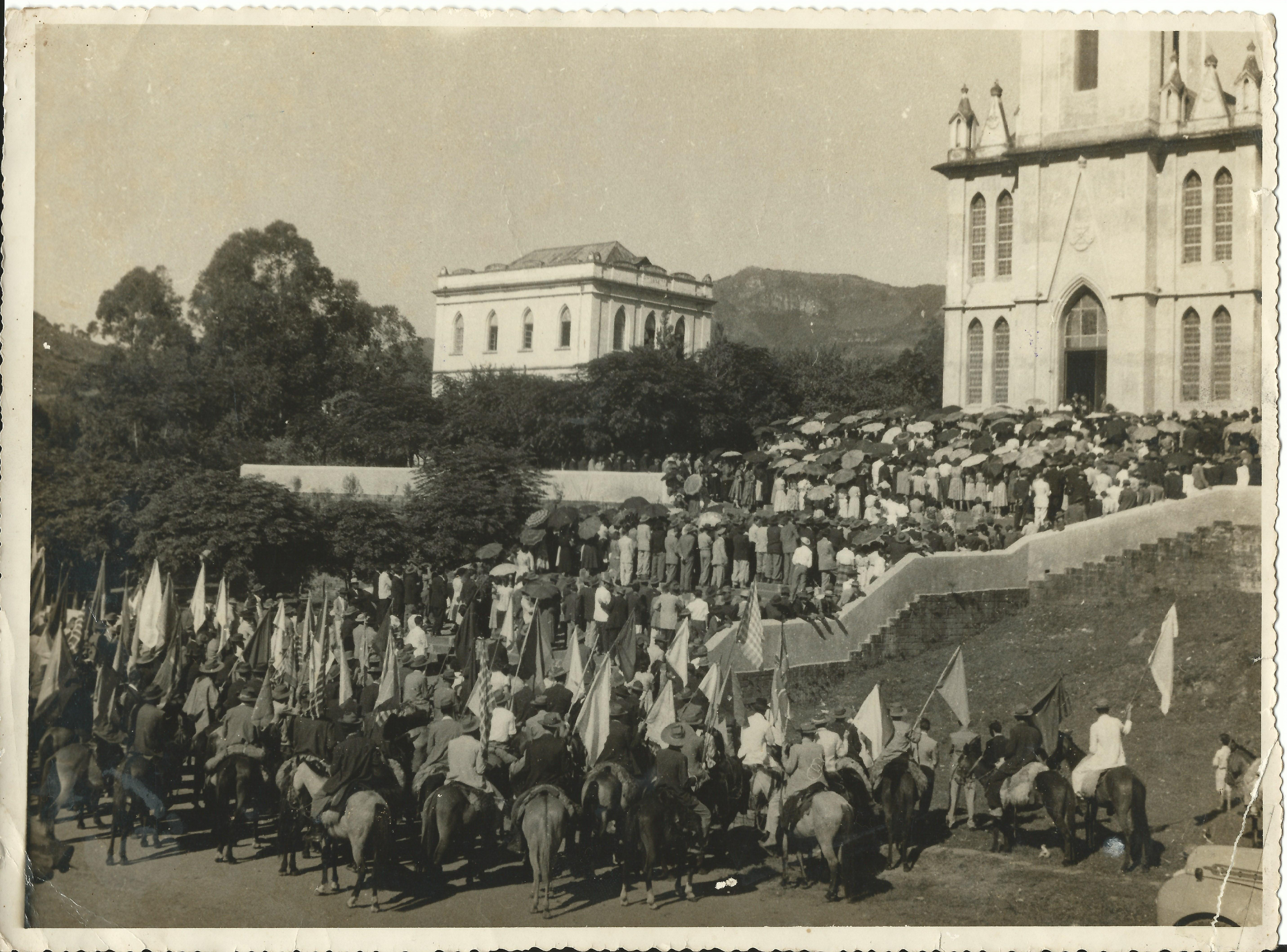 Esta foto foi obtida através da digitalização da foto do documento físico. A foto representa uma das festas religiosas do Município, esta, em específico, no distrito de Barra do Ouro. É também uma foto emblemática, pois representa a degradação do patrimônio arquitetônico do Município ao longo dos anos, se comparado com as fotos atuais da igreja e seu entorno, no qual parte da escadaria está completamente descaracterizada por construções irregulares.